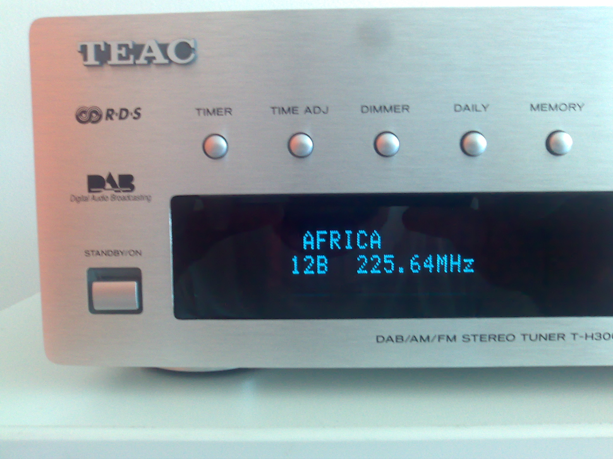 TEAC T-H300DAB MKIII (DAB Tuner)